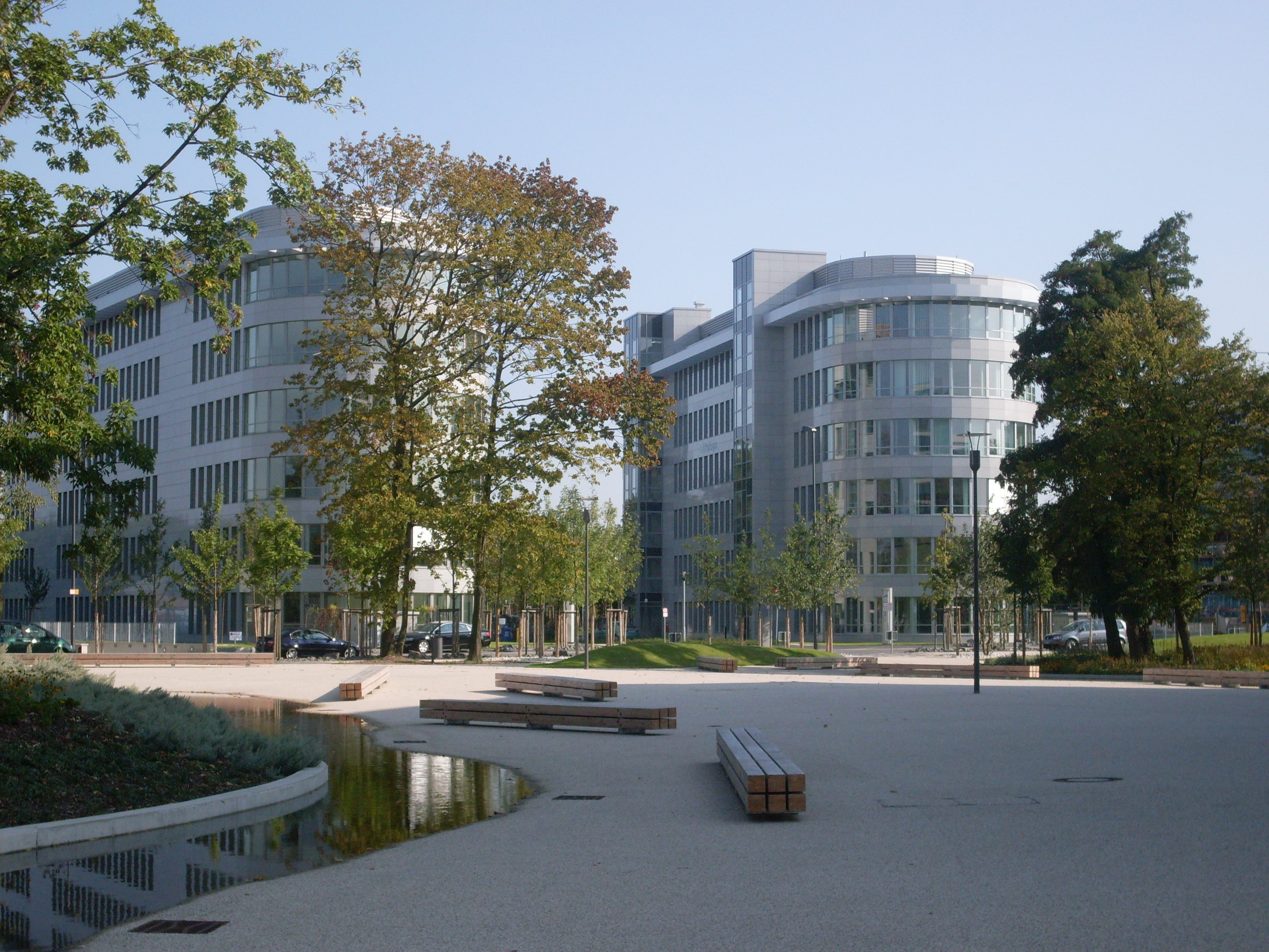 Duesseldorf, AirportCity business park